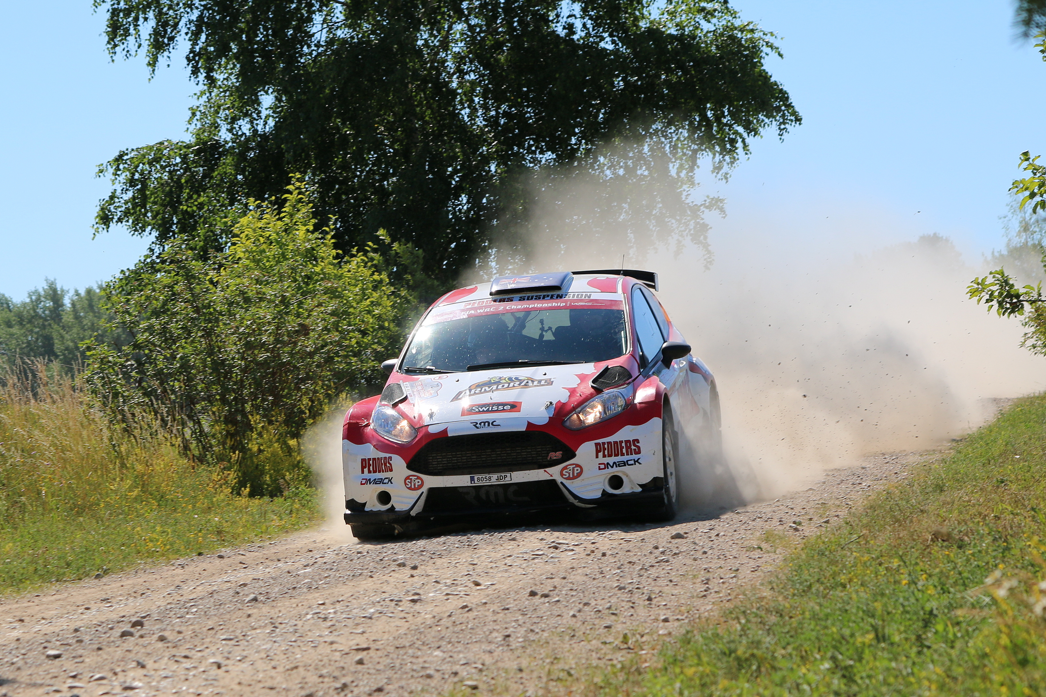 Scott Pedder, OS 10 Mazury, 72nd LOTOS Rally Poland